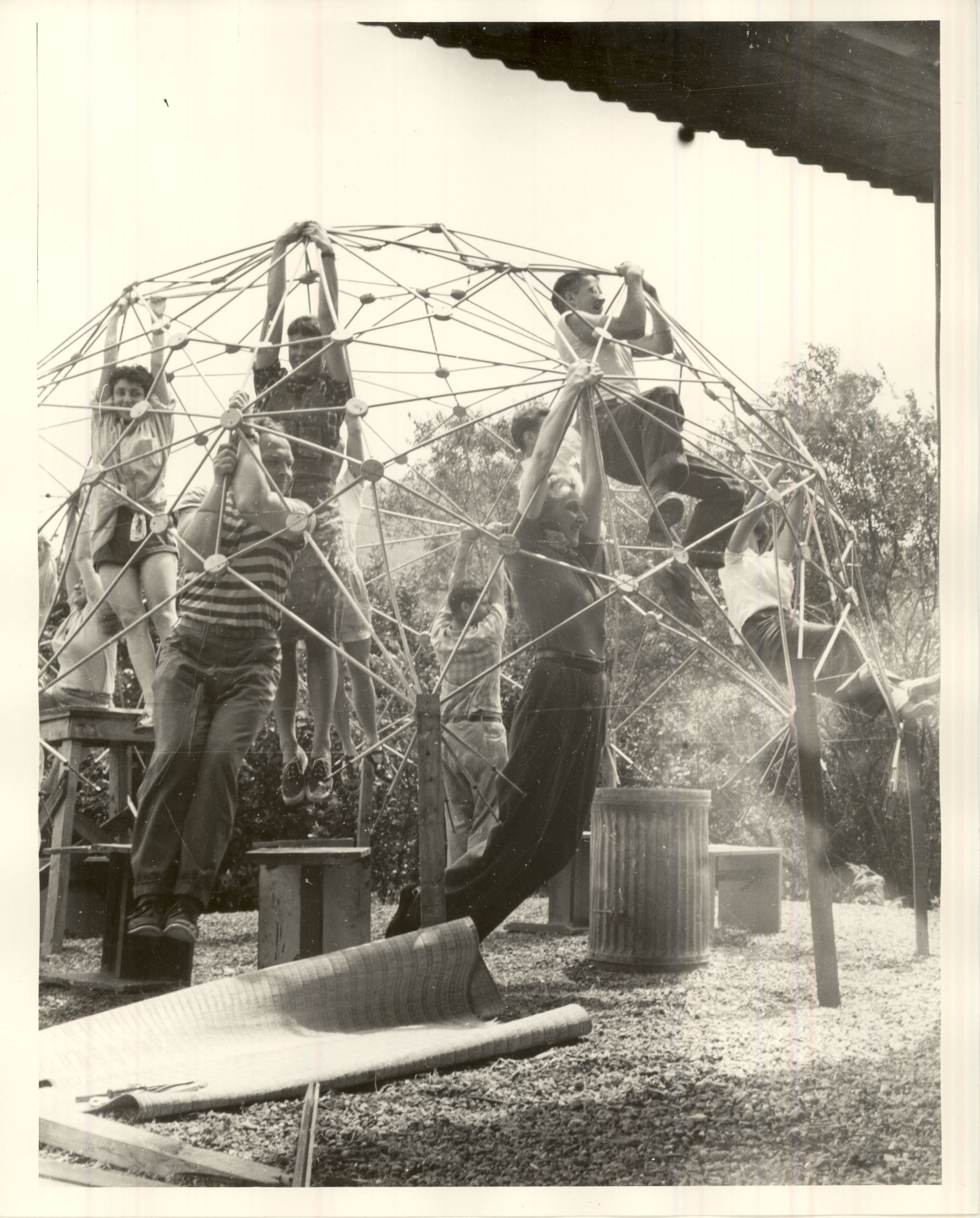 From the Black Mountain College Research Project Papers, Visual Materials, North Carolina State Archives, Raleigh, NC.